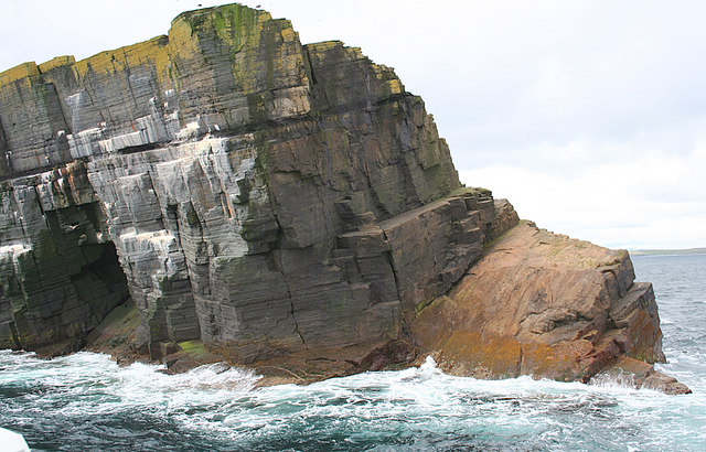 The Horse of Copinsay, Orkney Islands. The Horse of Copinsay and nests of the residents. This area around this rocky outcrop is rich in fish and is surely a geologist's dream.